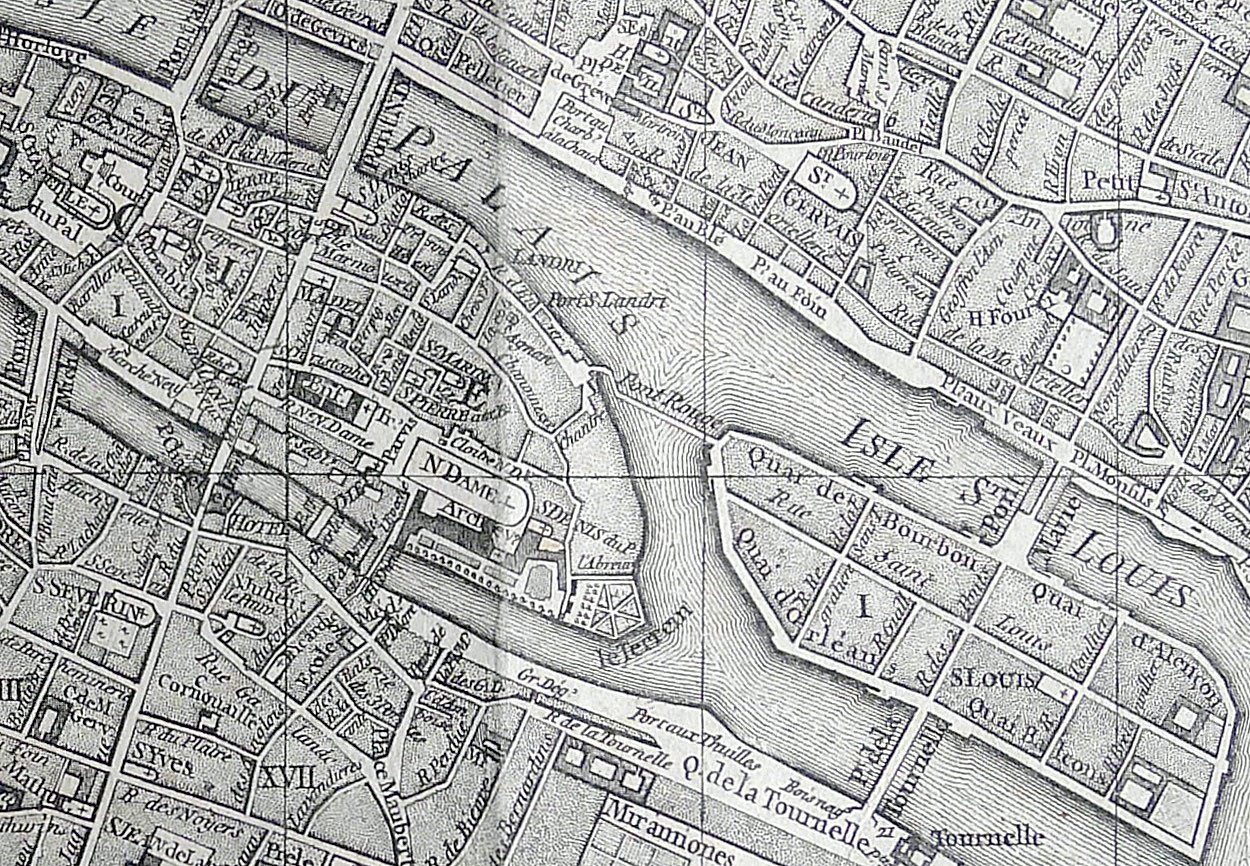 Vaugondy's map of Paris (Notre-Dame district) - 1760